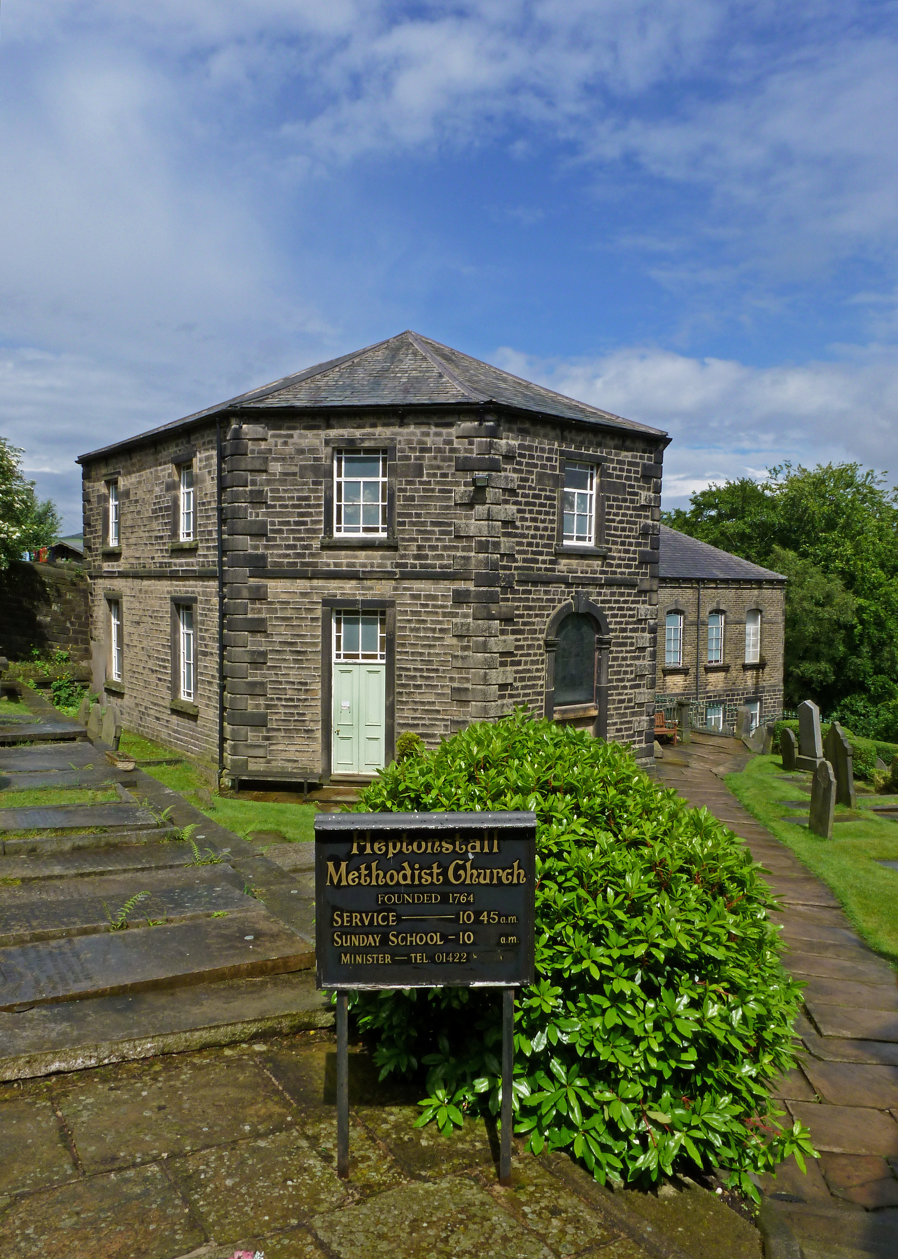 Heptonstall Methodist Church, Heptonstall, West Yorkshire. Taken by Flickr user:Tim Green aka atouch on Saturday the 30th of June 2012.